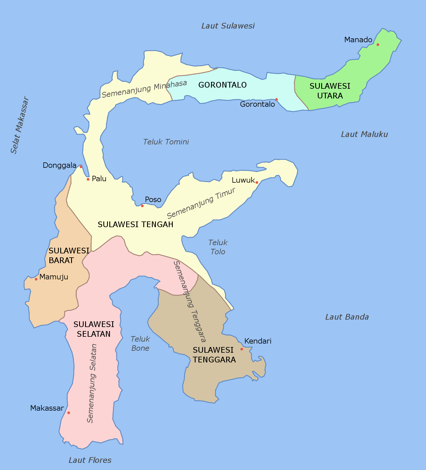 Map of provinces of Sulawesi labelled in Indonesian